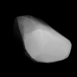 3D convex shape model of 2708 Burns, computed using light curve inversion techniques. J. Hanuš, J. Ďurech, M. Brož, B. D. Warner (June 2011). "A study of asteroid pole-latitude distribution based on an extended set of shape models derived by the lightcurve inversion method". Astronomy and Astrophysics 530: A134. ISSN 0004-6361. arXiv